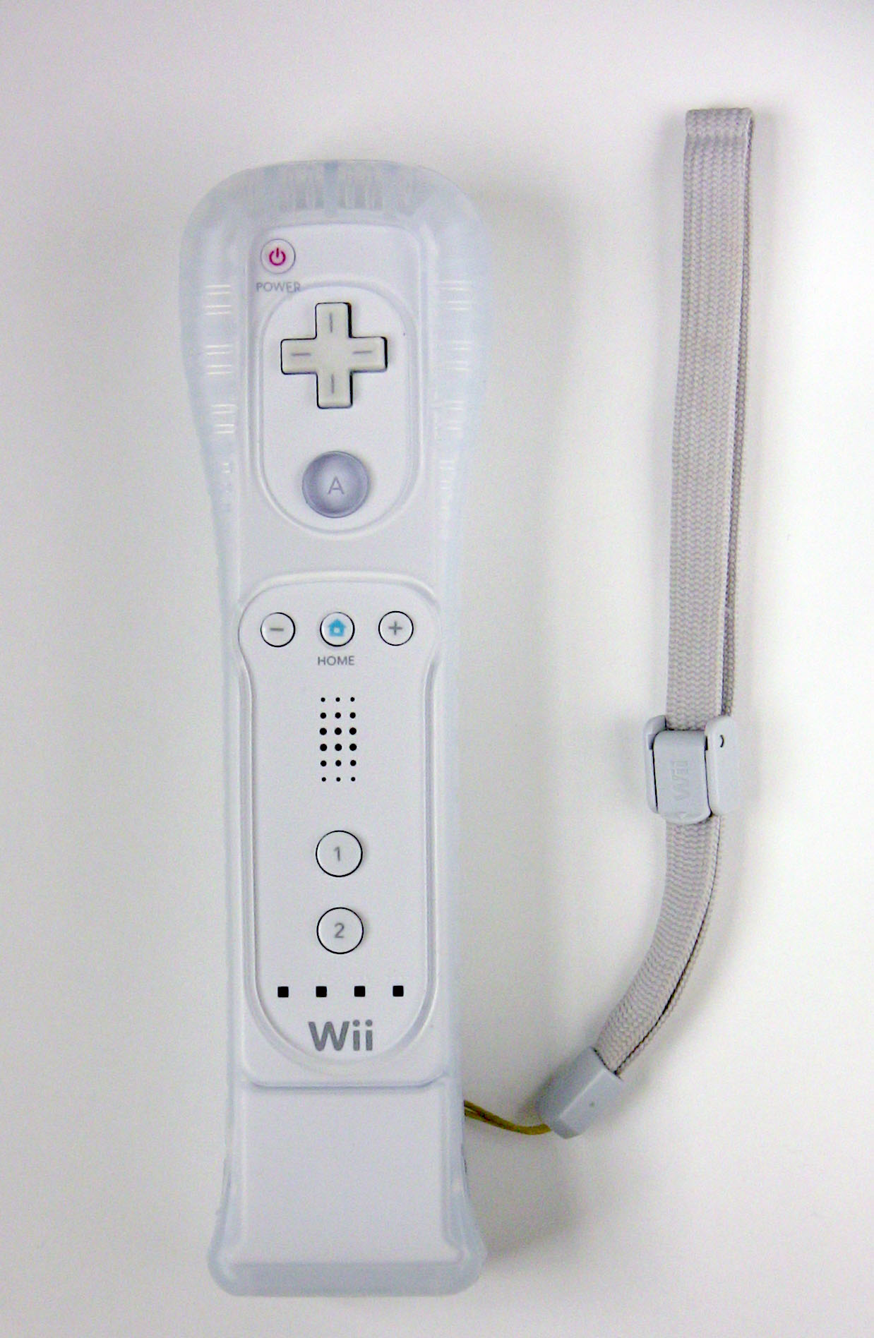 A Wii Remote with a Wii MotionPlus attached.